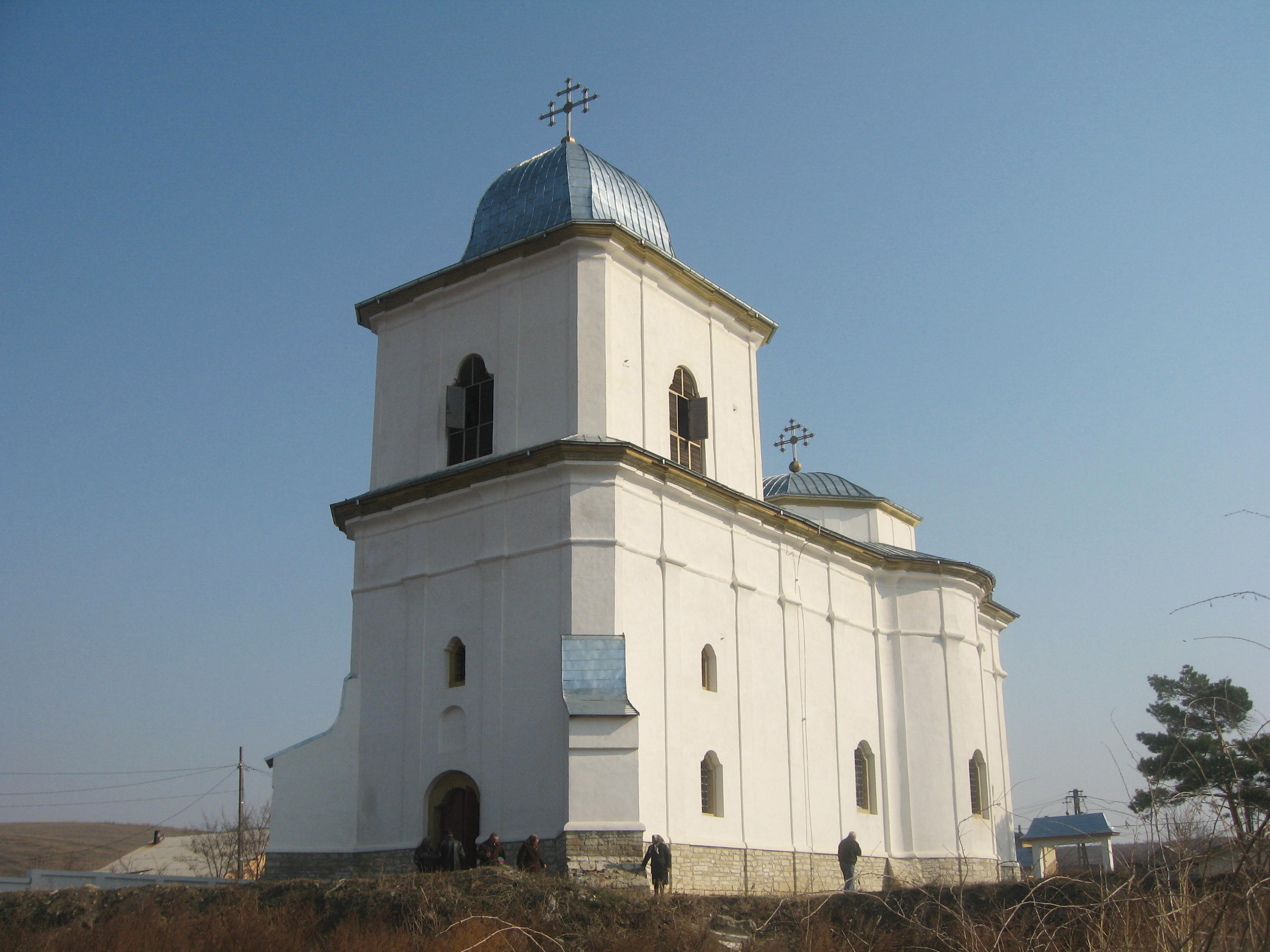 Transfiguration Church in Cucuteni, Iaşi County, Romania, an historical monument